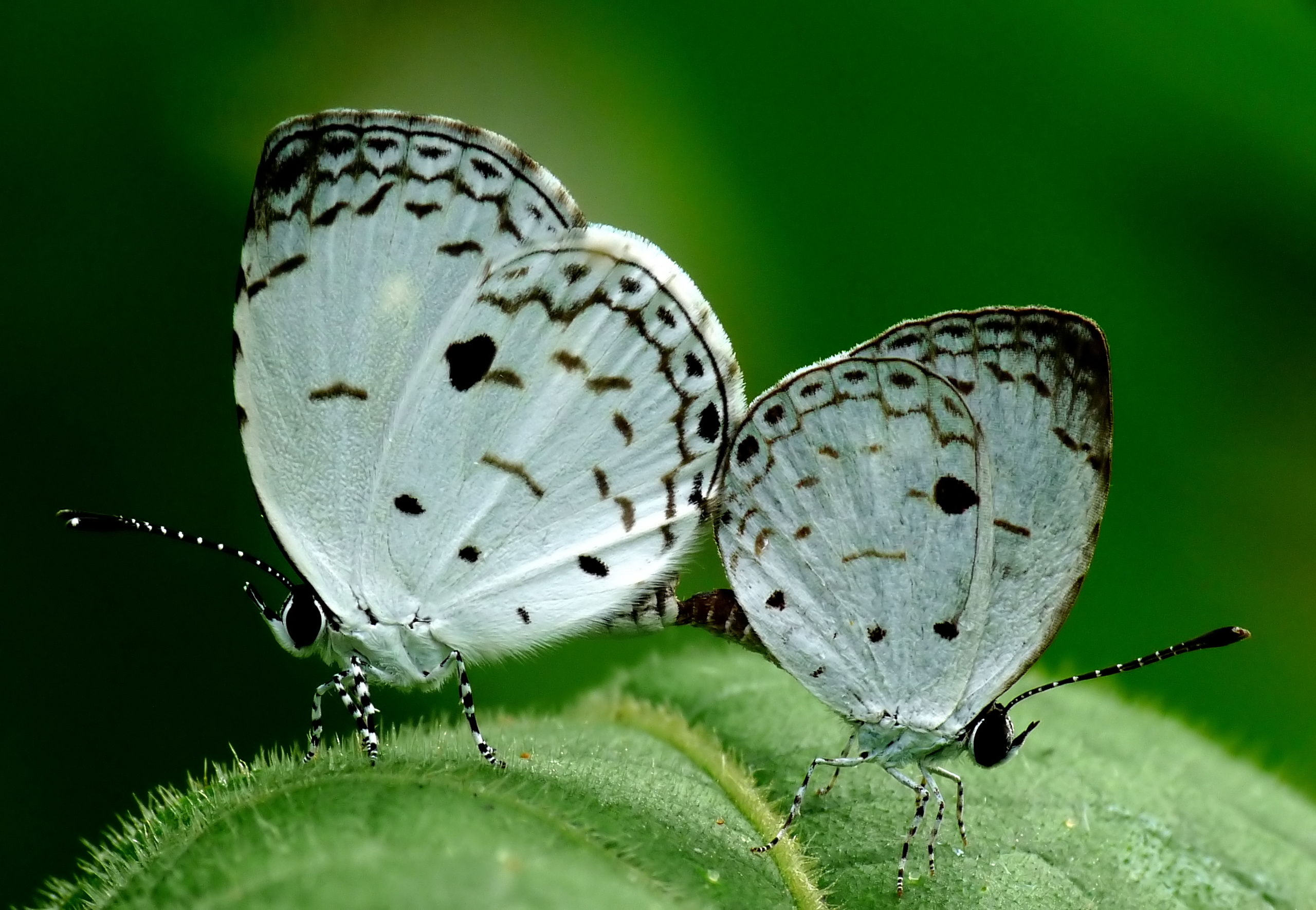 The Quaker (Neopithecops zalmora) is a small butterfly found in South Asia and Southeast Asia that belongs to the Lycaenids or Blues family. Taken at Kadavoor, Kerala, India.